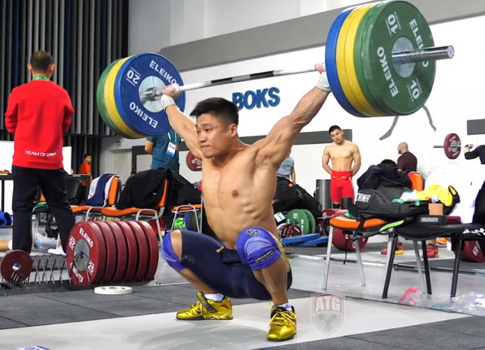 lu making a snatch between other people who is watching him